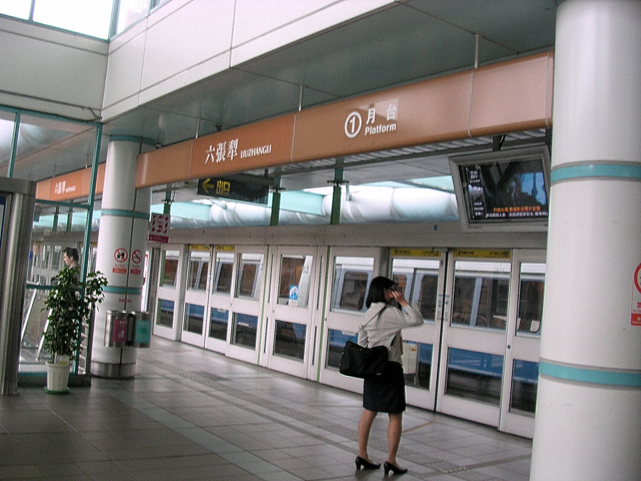 Platform 1, Liuzhangli Station, Taipei MRT.中文（台灣）: 台北捷運六張犁站第一月台。